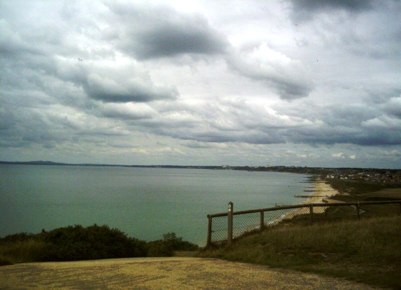 Poole Bay from Hengistbury Head.